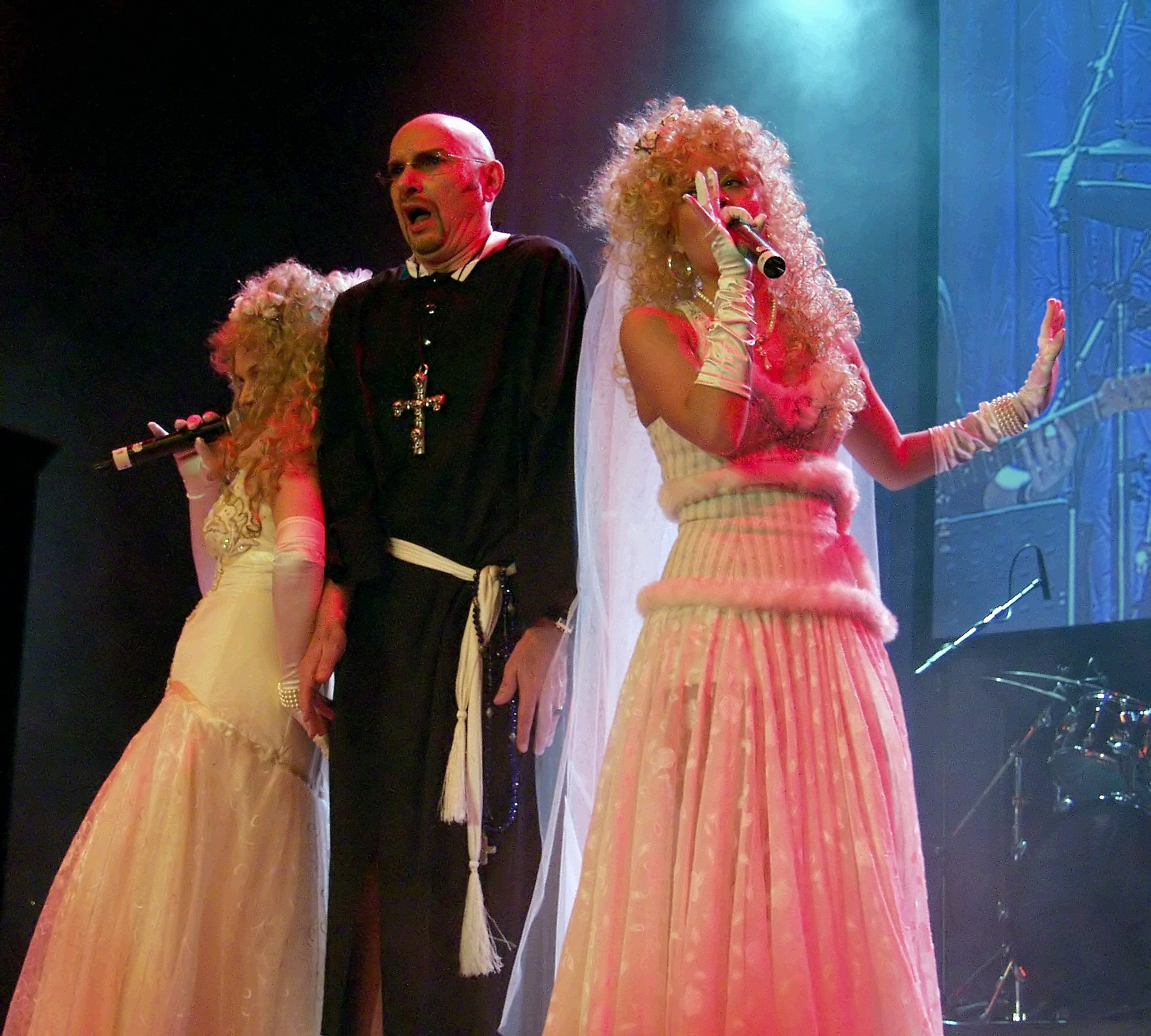 Ralph Morgenstern & Juliette Schoppmann perform on the charity concert "Cover me" at Palladium, Cologne, Germany.